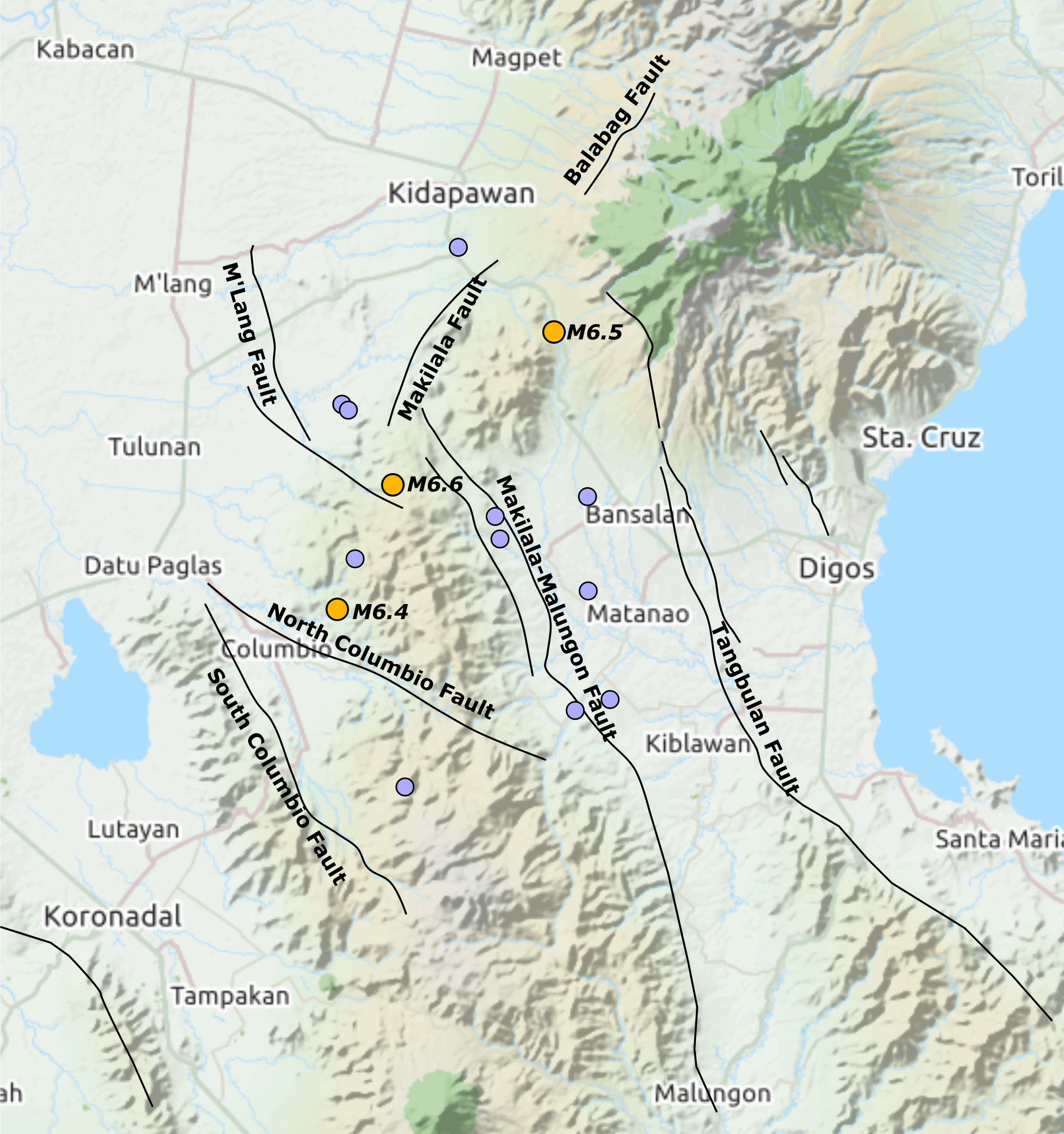 Map showing the epicentres of all earthquakes of magnitude M≥5 in the October 2019 sequence, locations from USGS, with main active faults from PHIVOLCS on a base from Open Street Map, tiles courtesy of Andy Allan